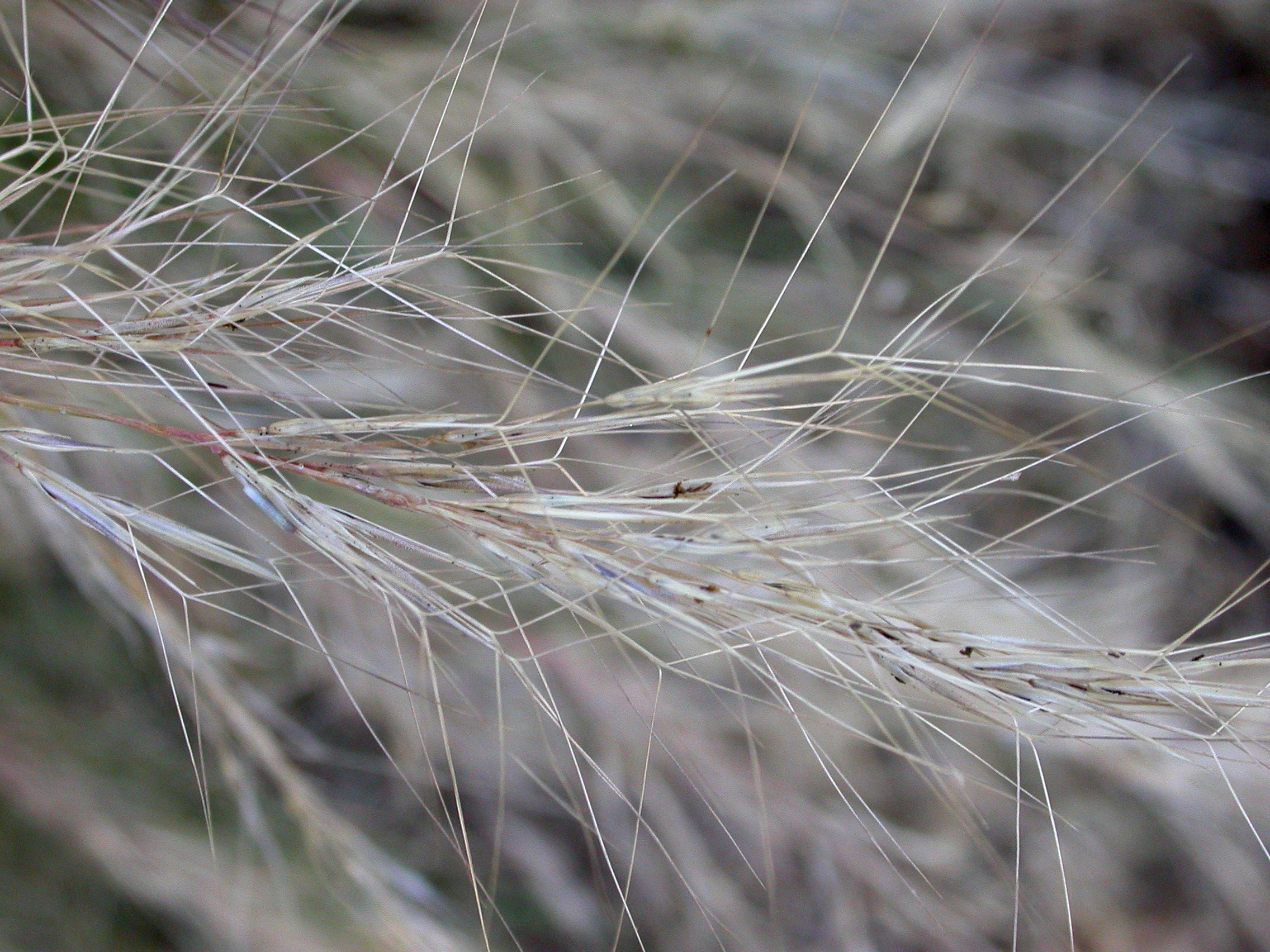 Aristida purpurea Photographed at BioTrek. Contributed and © by Curtis Clark. Licensed as noted.